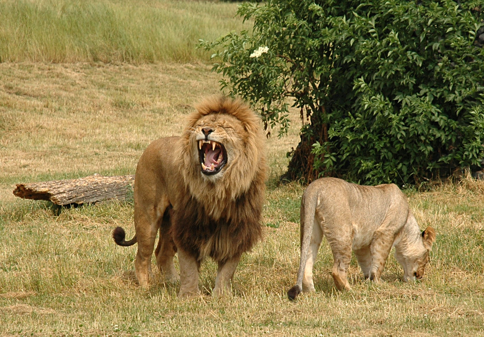 Pair of lions in West Midlands Safari Park